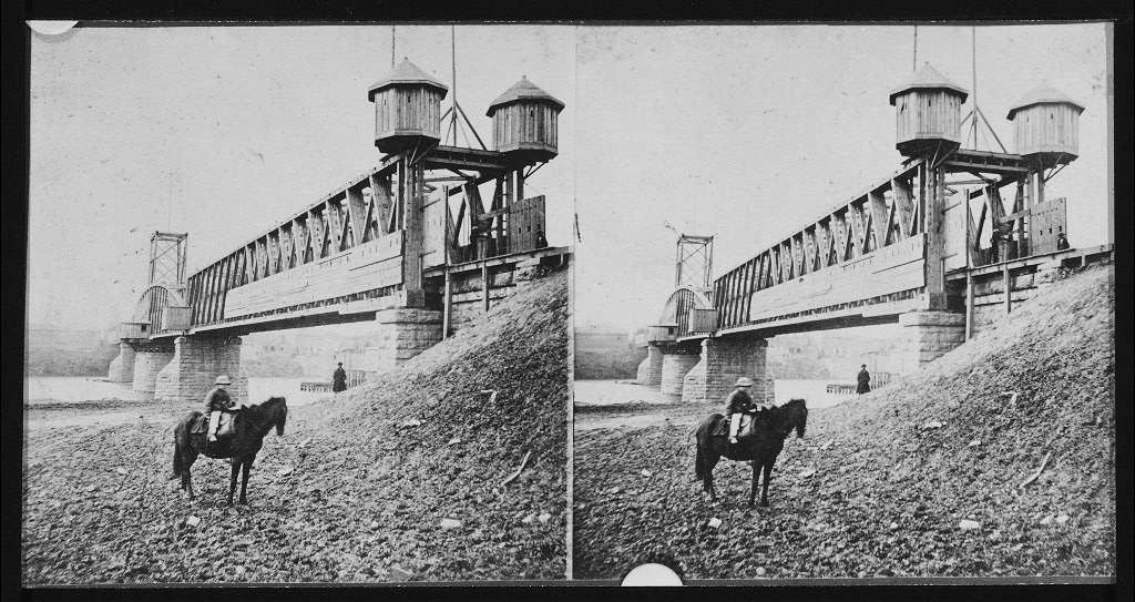 Original caption "The fortified bridge over the Cumberland River on the Louisville and Nashville R. R. [Stereograph]" and "Boy on horse below the fortified bridge over the Cumberland River on the Louisville and Nashville R. R."